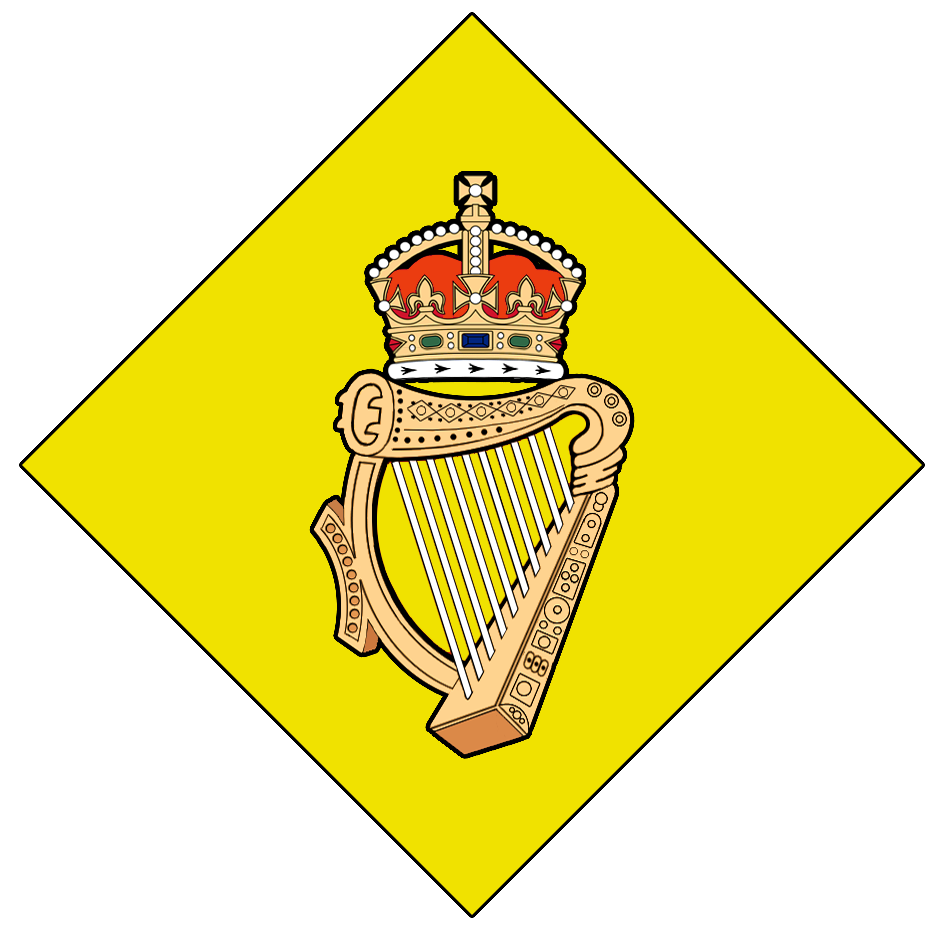 Cap badge design for the Auxiliary Division of the Royal Irish Constabulary (ADRIC)